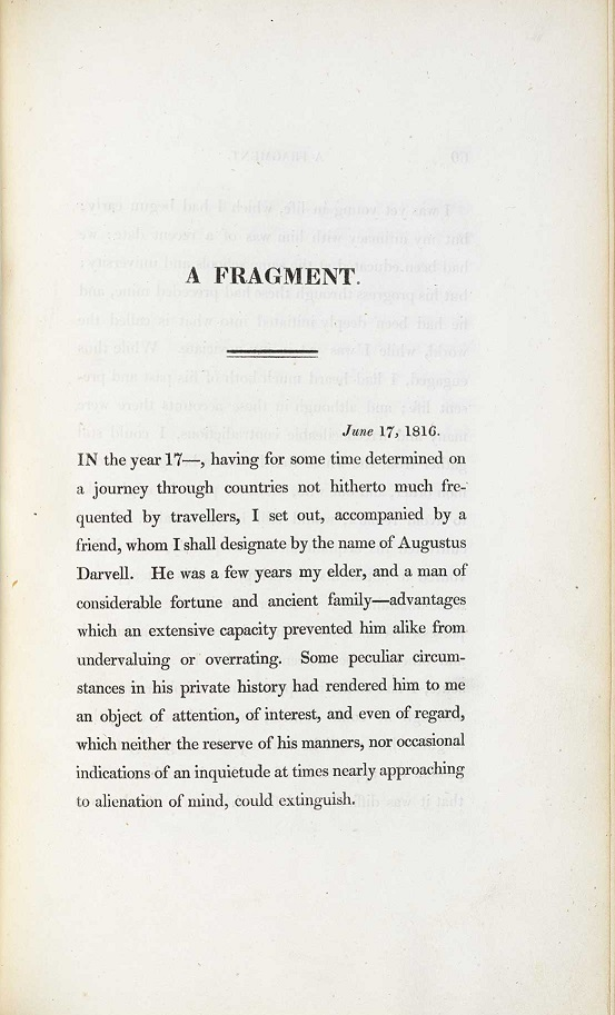 "A Fragment" by Lord Byron, from the 1819 collection Mazeppa, published in London by John Murray.